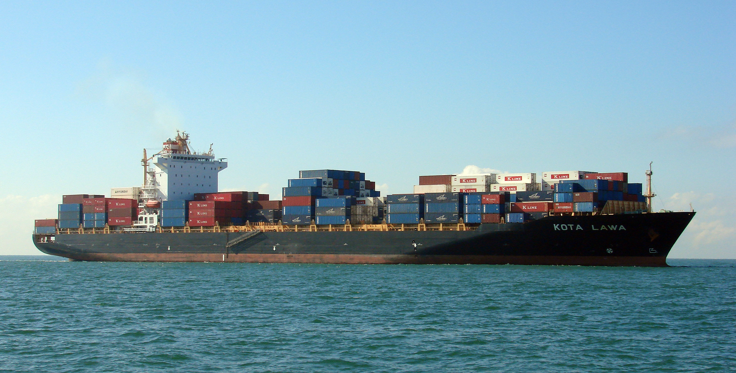 Container ship Kota Lawa